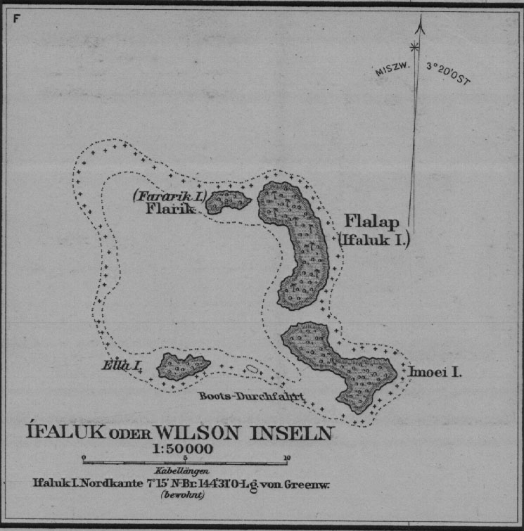 Ifaluk Atoll, eastern Yap State, Caroline Islands, Federated States of Micronesia, Pacific Ocean